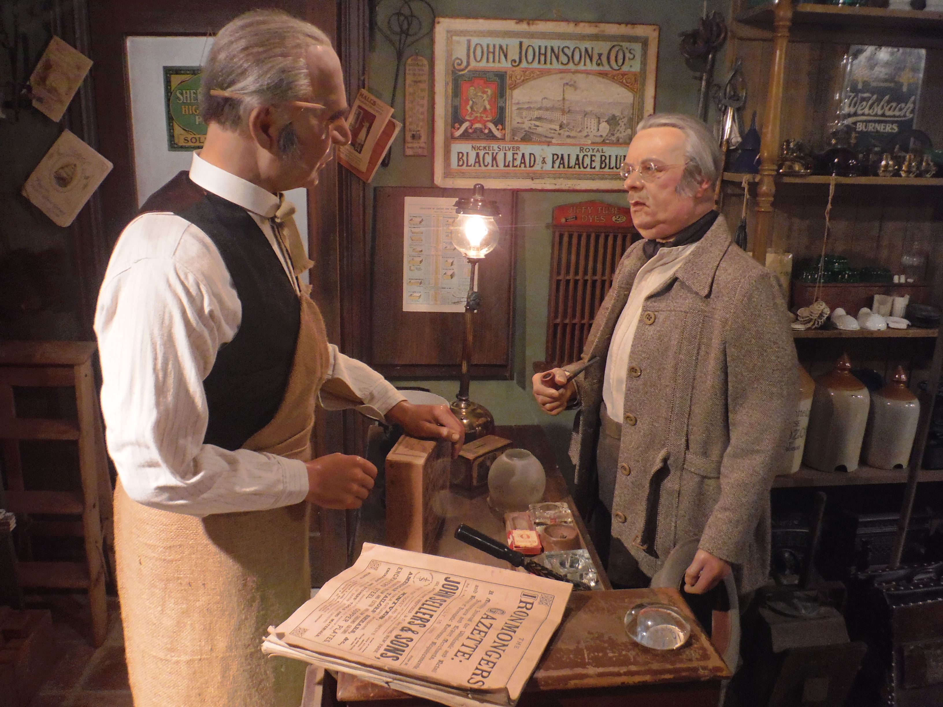 Helston : Flambards Victorian Village